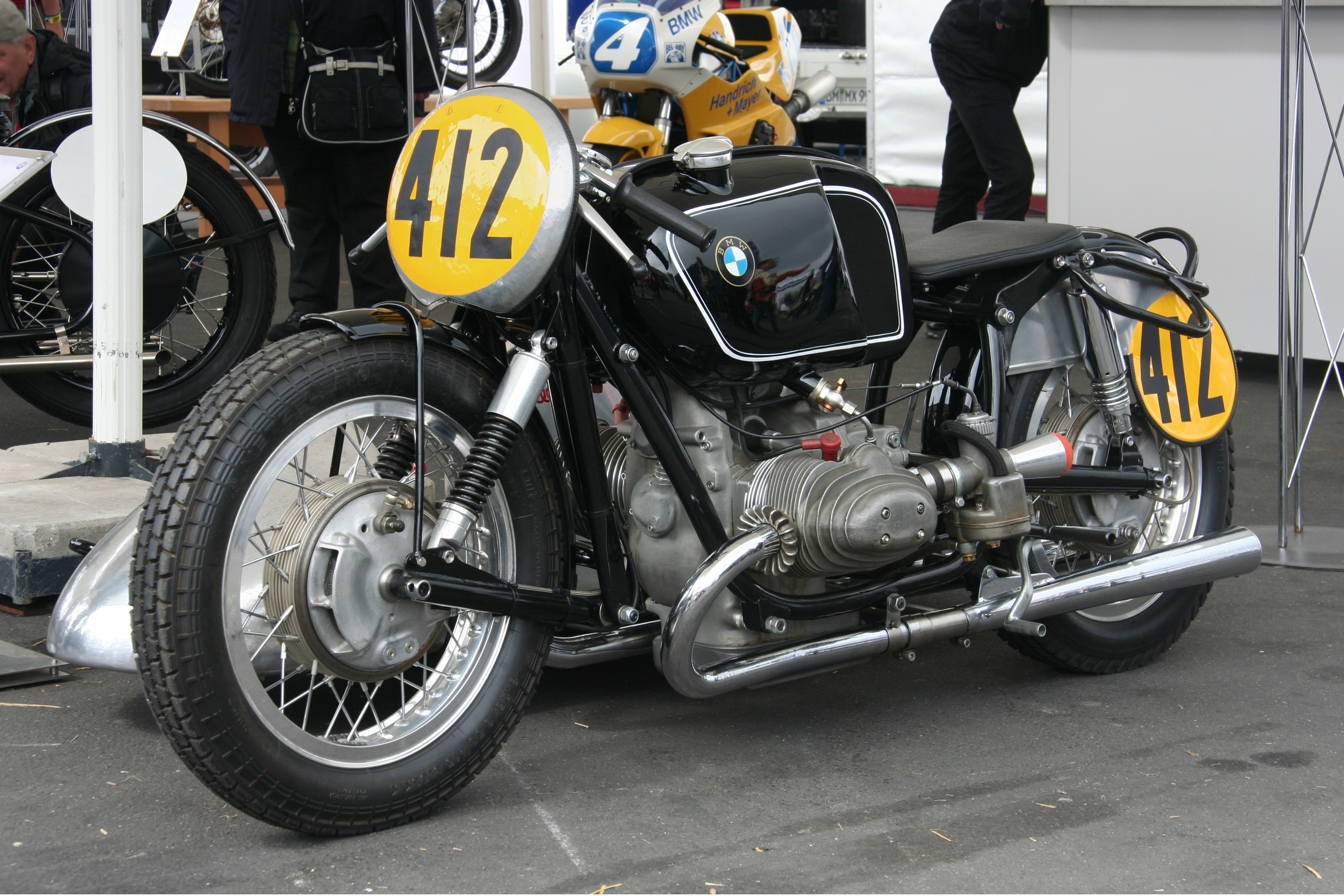 Racing sidecar on base of the BMW RS 54 built since 1953, presented at the AvD-Oldtimer-Grand-Prix in the paddock of Nürburgring